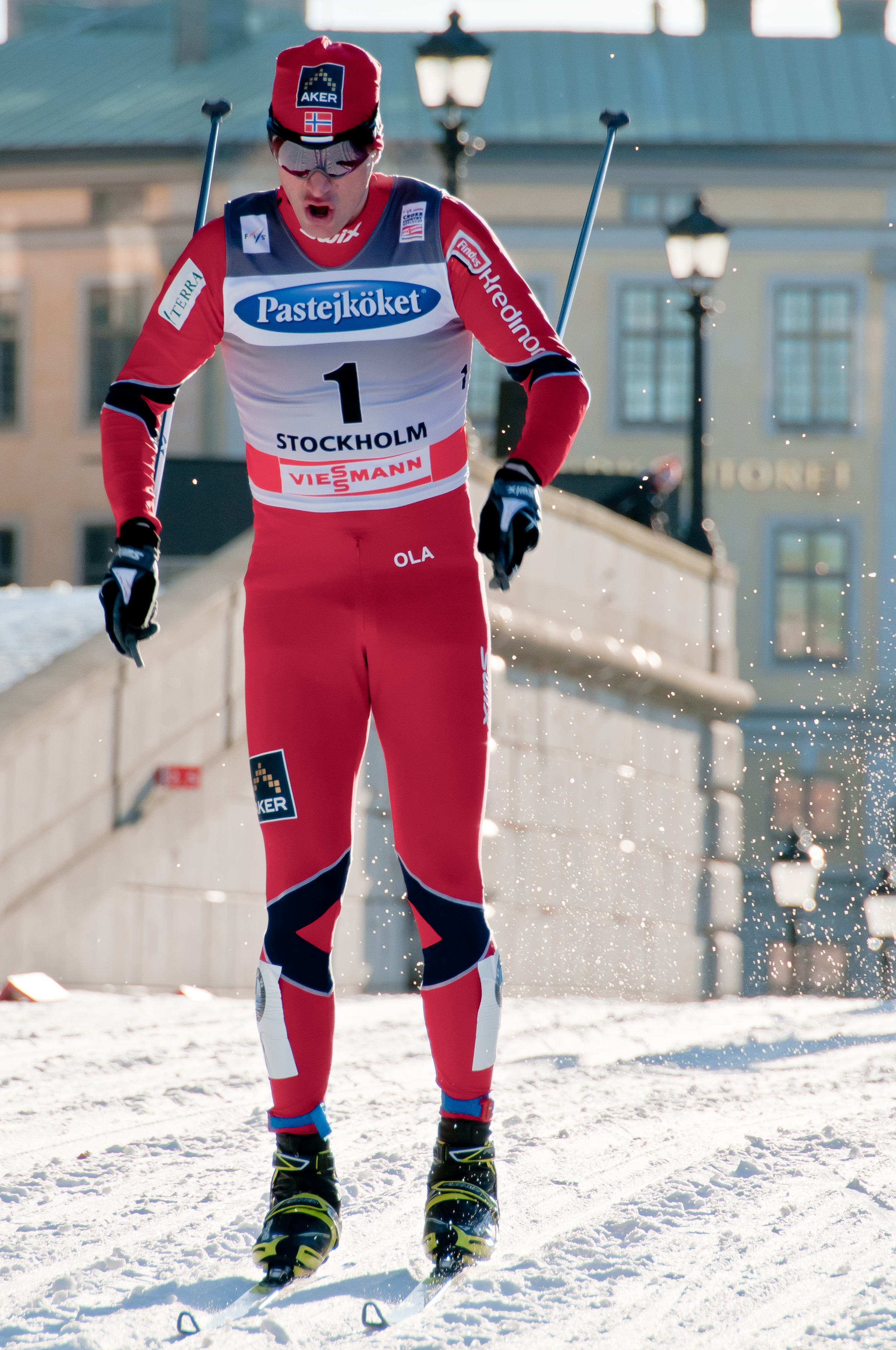 Ola Vigen Hattestad at the Royal Palace Sprint, an FIS Cross-Country World Cup Race.